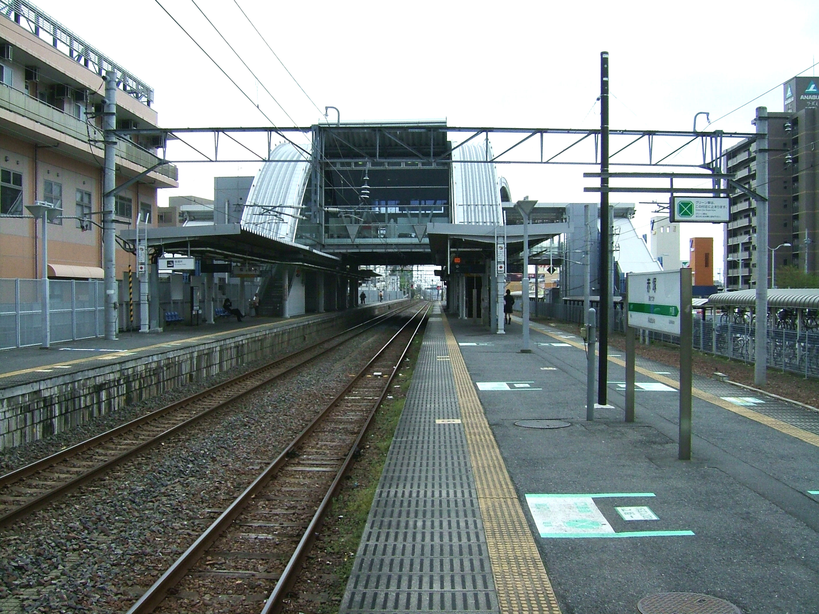 The platforms of Akatsuka Station, East Japan Railway Jōban Line